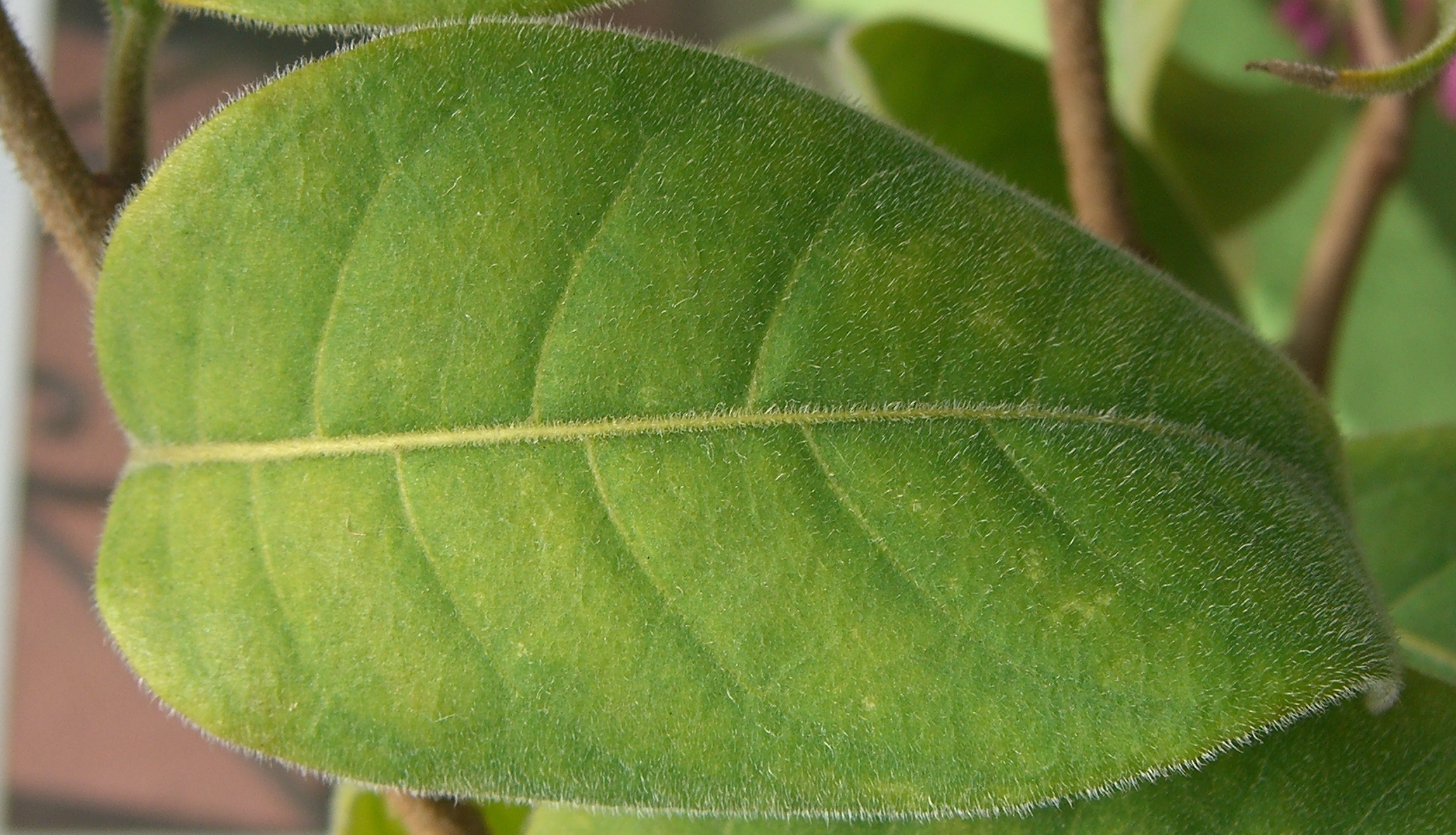 Please report references to .